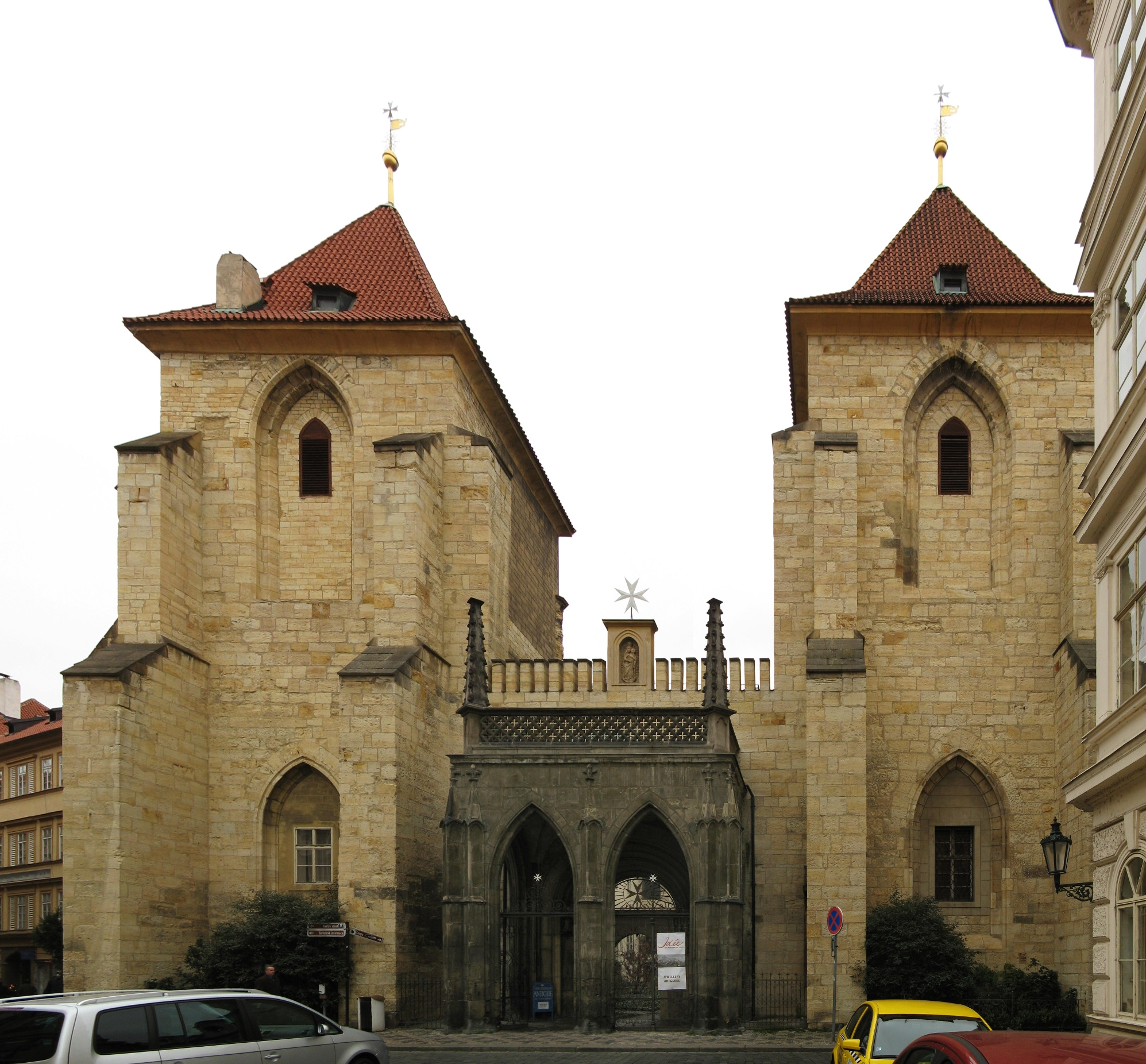 Church of Our Lady under Chain, Prague, Lesser Town, Velkopřevorské náměstí. Composed of 6 snaps (hugin)